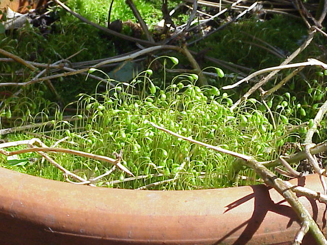 Species: Funaria hygrometrica Family: ' Image No. 1